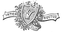 Emblem of DeVries, Ibarra & Co., publishers, Boston, Mass., 1864